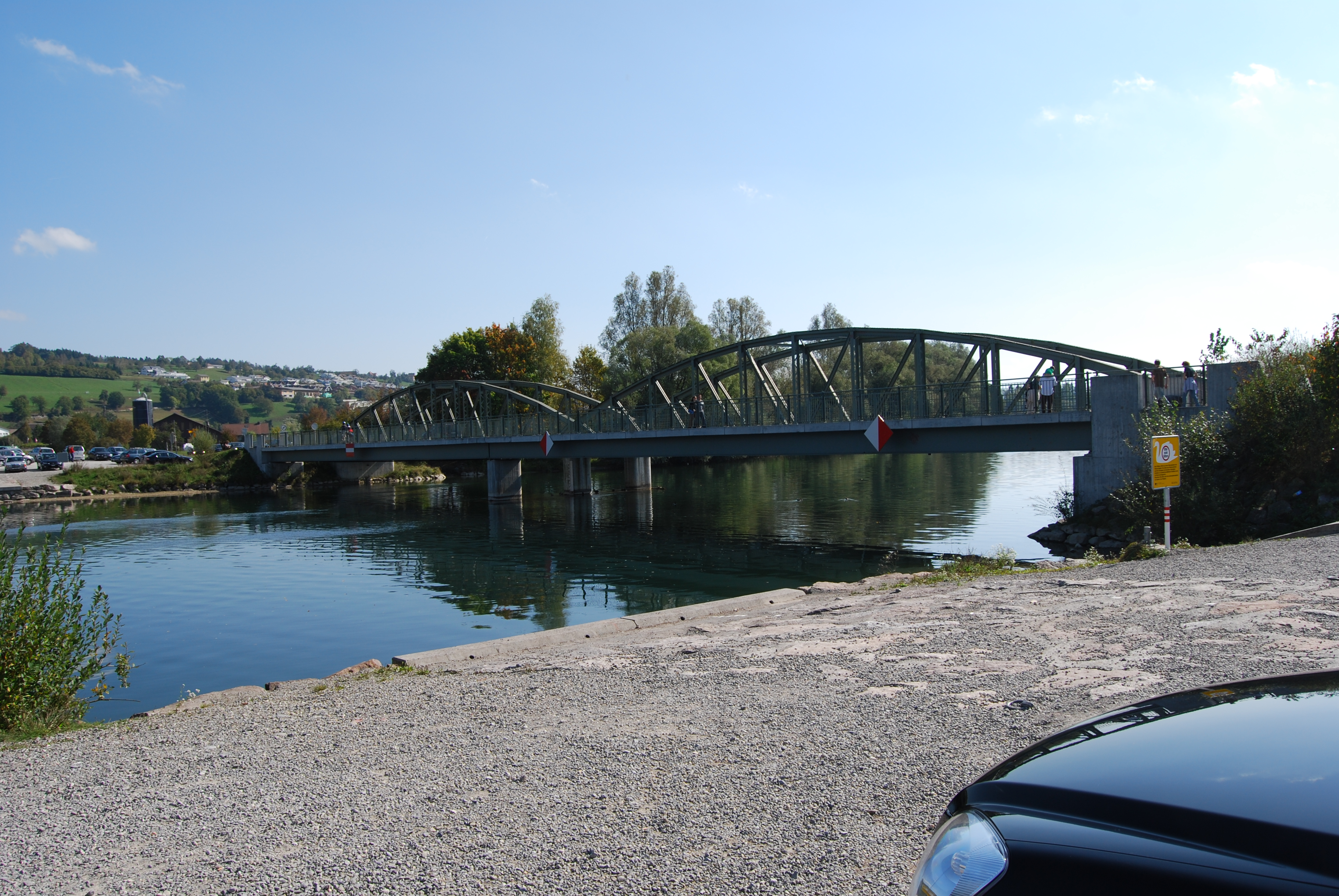 Brigde over Reuss between Unterlunkhofen and Rottenschwil (the bridge forms the upper end of lake Flachsee), canton of Aargau, SwitzerlandEsperanto: Ponto trans Reuss inter Unterlunkhofen kaj Rottenschwil (la ponto formas la supran finon de la lago Flachsee), Kantono Argovio, Svislando